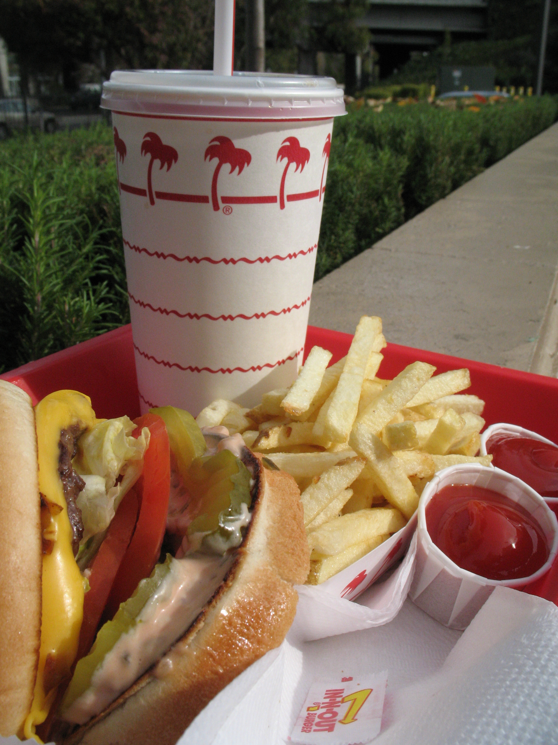 In a red plastic tray, an animal-style cheeseburger, fries, drink, and ketchup at an In-N-Out Burger near Mountain View, California, USA.In-N-Out